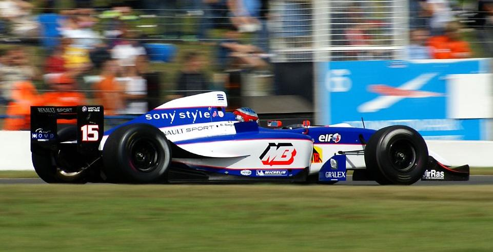 Bertrand Baguette driving for KTR at the Donington Park round of the 2007 World Series by Renault season.